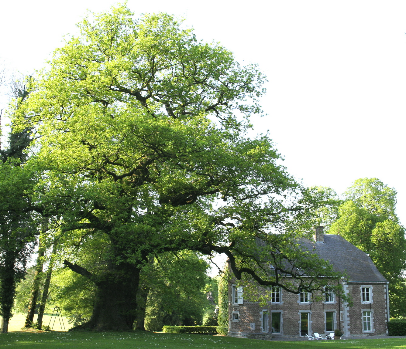 Mesnil-Église (Belgium), the Ferage hamlet castle and his remarkable oak (about 600 years old).